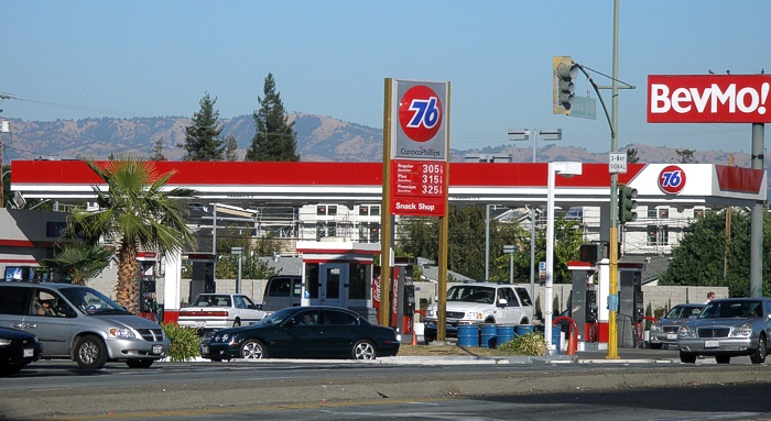 A Union 76 gas station in San Jose, at the intersection of Kiely and Stevens Creek Boulevards. This station has been remodeled in a newer design that has become common after ConocoPhilips took control of the chain.